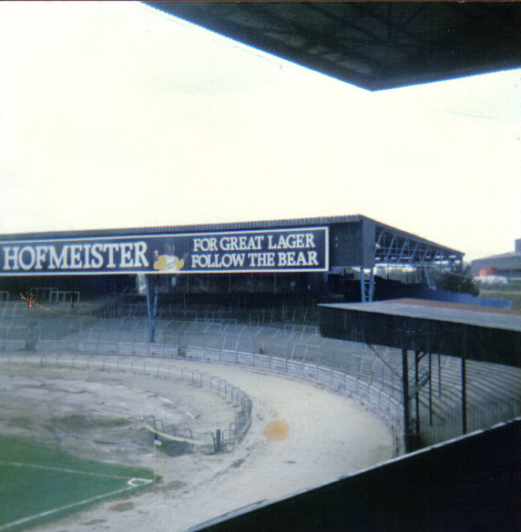 The Tote End at Bristol Rovers former ground, Eastville Stadium, pictured from the North Stand on May 3rd 1986 during the club's final game there, a reserve match against Watford (final score 1-1, Rovers goal scored by David Mehew) in front of no more than a few hundred fans (only the North Stand was open that day). At the time speculation was rife that this game would be the final curtain, although it wasn't until June 1986 that it was confirmed that Rovers had indeed called it quits, even though their lease at Eastville had one more year to run. Rovers were forced out because they could no longer afford the £50,000 per year rent being charged by their landlords, The Bristol Stadium Company. Quite simply, Eastville was costing Rovers around £2,000 per home game, which with falling gates in the 1980's (this was the era of Heysel and the Bradford fire) resulted in a loss for almost every match. Sharing Bristol City's Ashton Gate was not an option because the rent there would have been on a par with Eastville. So for the next decade, Rovers played 12 miles away at Twerton Park in Bath (thank you, Bath City) before returning to Bristol in 1996 to play at the Memorial Stadium. The Tote End terrace at Eastville was demolished in August 1987, and the rest of the Stadium was reduced to rubble ten years later after the greyhounds relocated. A beastly Ikea superstore was built on the site in 1998. Note: I took this photo with about ten minutes of the game left and if you look closely at the front of the Tote, you can just make out Rovers' Chief Executive, Gordon Bennett taking one last stroll around the ground.